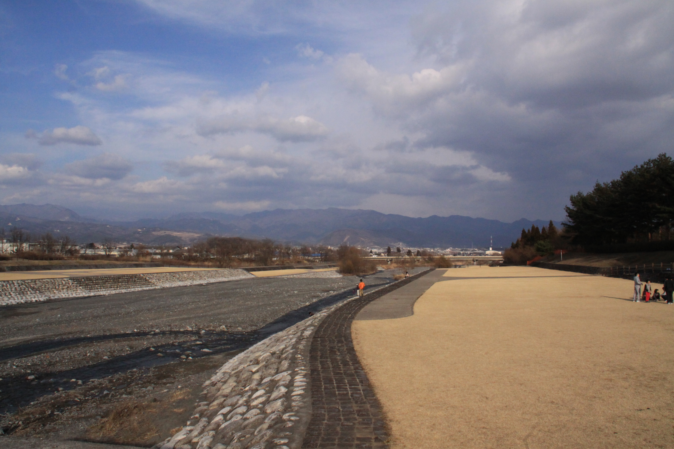 Midaiminamikouen is riverside-park in Minami-alps, Yamanashi, Japan.